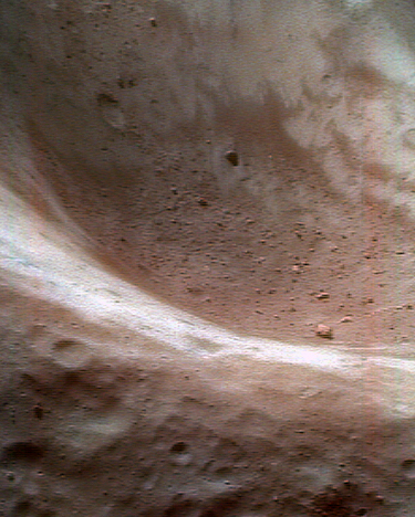 Original description: On June 14, 2000, NEAR Shoemaker trained its camera on Eros' large, 5.3-kilometer (3.3-mile) diameter crater for a series of color pictures intended to measure the properties of regolith inside the asteroid's craters. In this false color view -- taken from an altitude of 50 kilometers (31 miles) -- redder hues represent rock and regolith that have been altered chemically by exposure to the solar wind and small impacts. Bluer hues represent fresher, less-altered rock and regolith, such as the bright patches that have been less affected by "space weathering." In that process, during micrometeorite impacts, rock reacts with miniscule amounts of trapped solar wind and is chemically changed. Interestingly, most of the large boulders have been just as affected as the regolith. This suggests either that the rocks are relatively old, or that they are "dirty" from an adhering film of regolith particles.